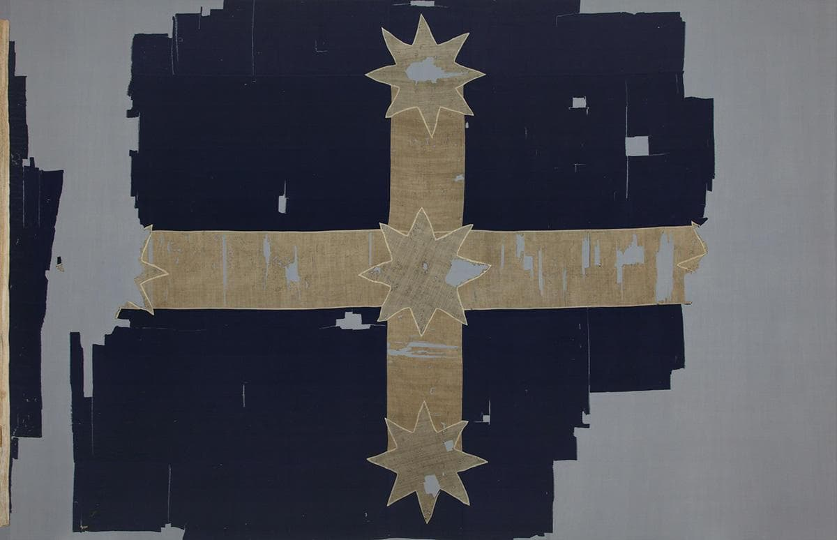 The Eureka Flag. Acknowledgments to the King Family and Ballarat Fine Art Gallery.